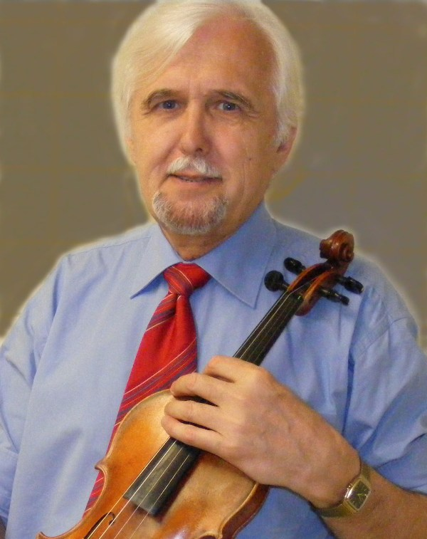 Jazz violin player Csaba Deseő (Budapestr, born 1939)